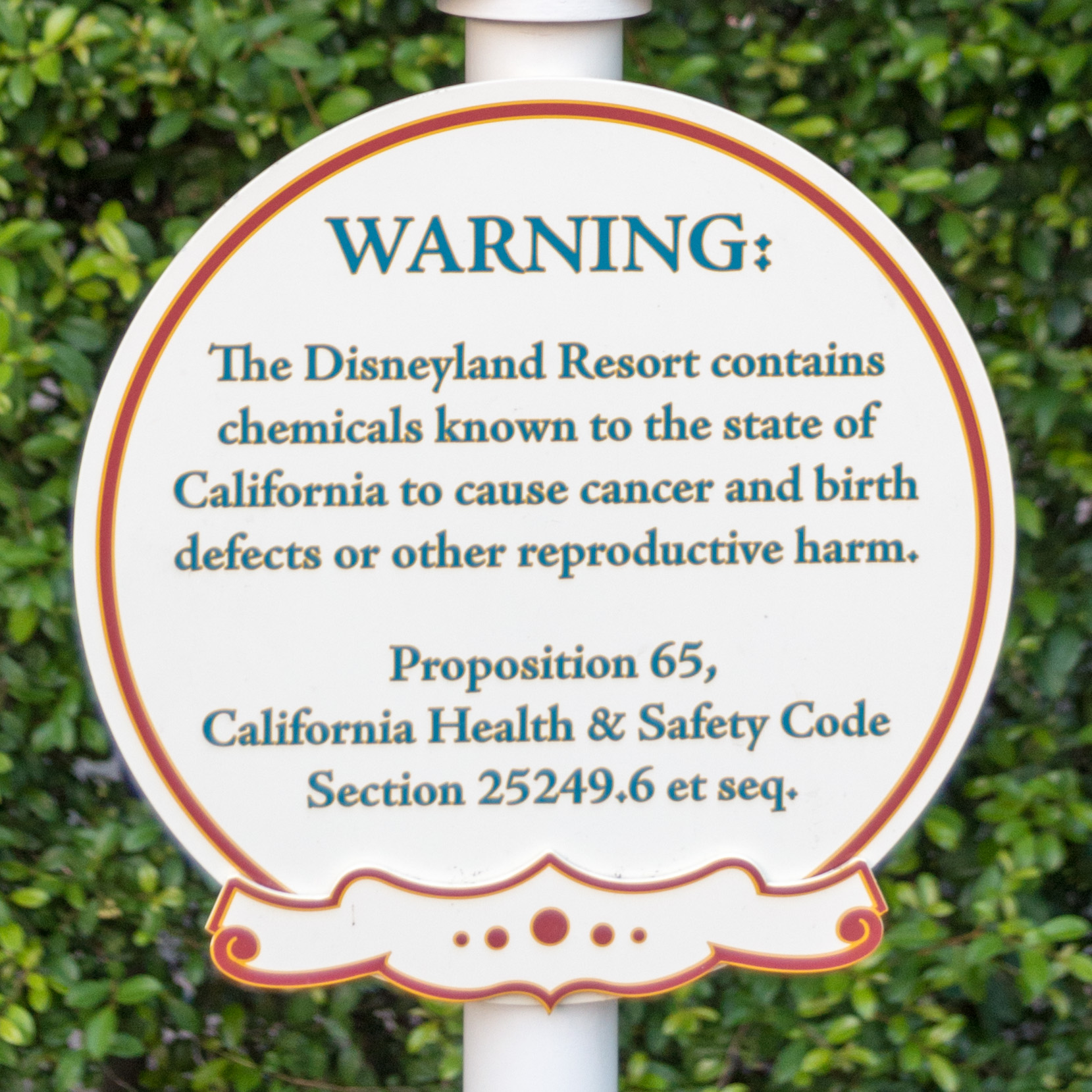 A Prop 65 warning sign at the picnic area next to the tram area at Disneyland Resort.